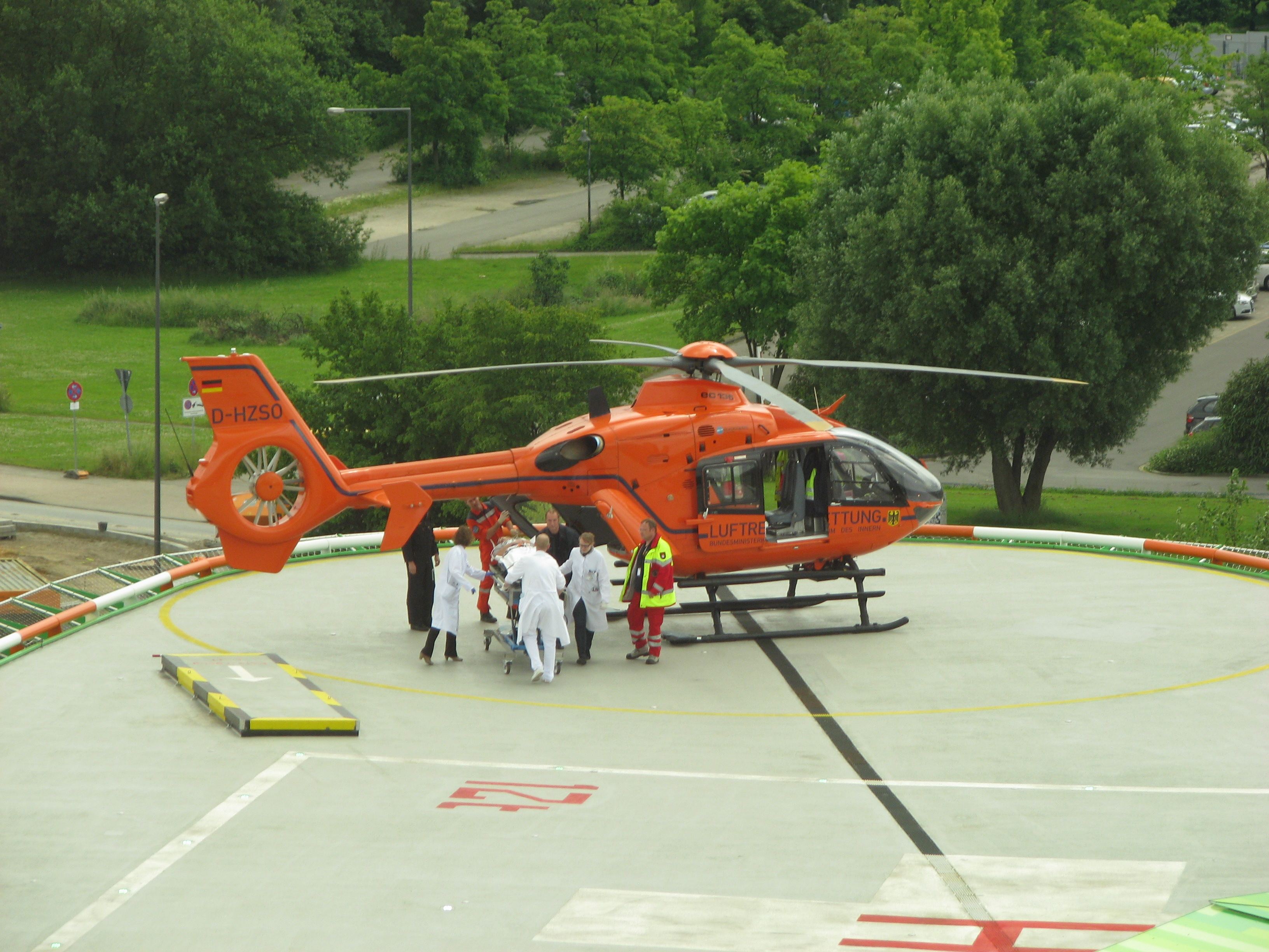 The air ambulance helicopter EC 135 of the Federal Ministry of the Interior, Christoph 3, from Cologne on a heliport of the University Hospital Aachen.